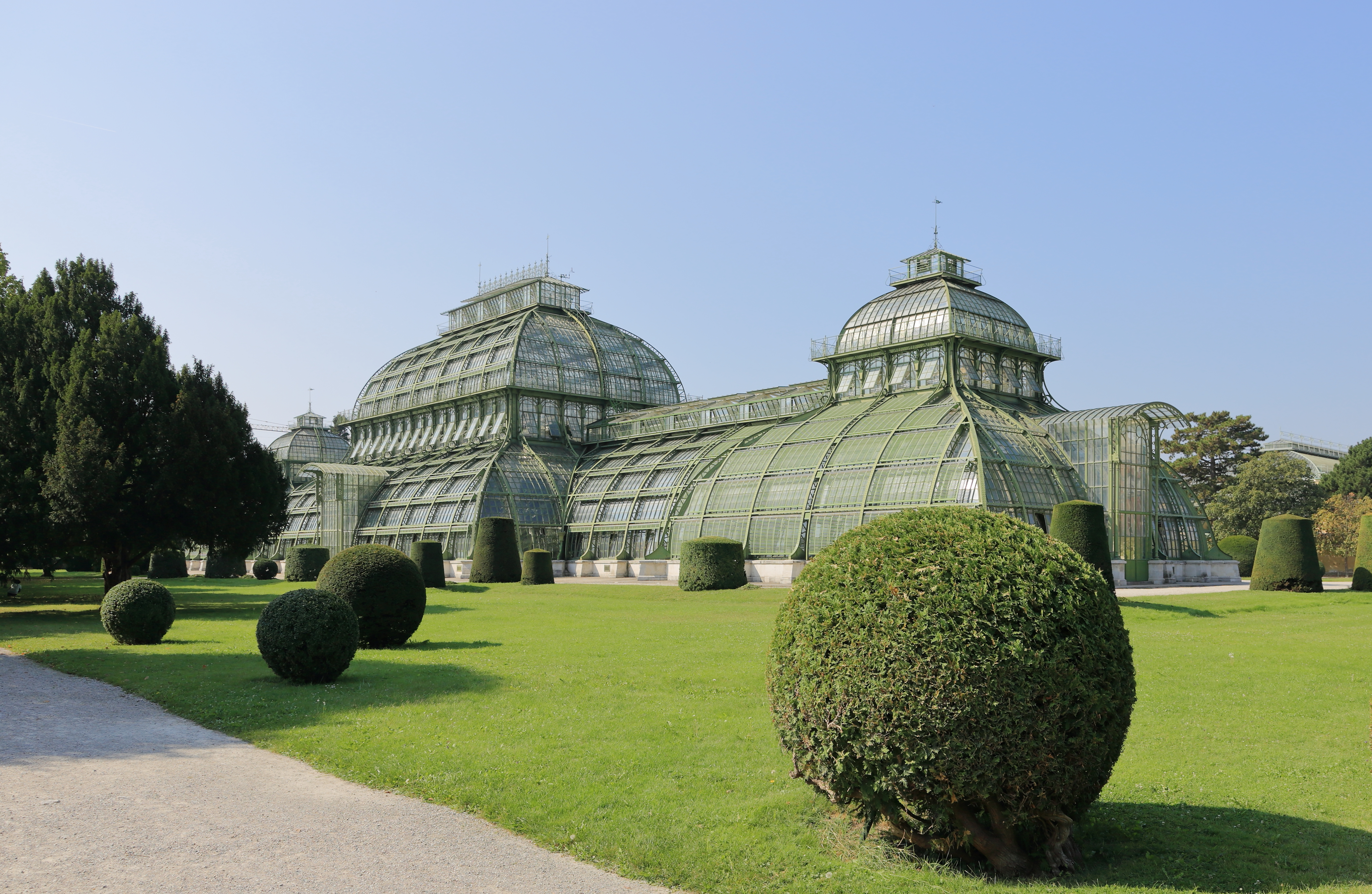 View of the Palm House at Schönbrunn Palace, Vienna, Austria, part of UNESCO World Heritage Site Ref. Number 786.